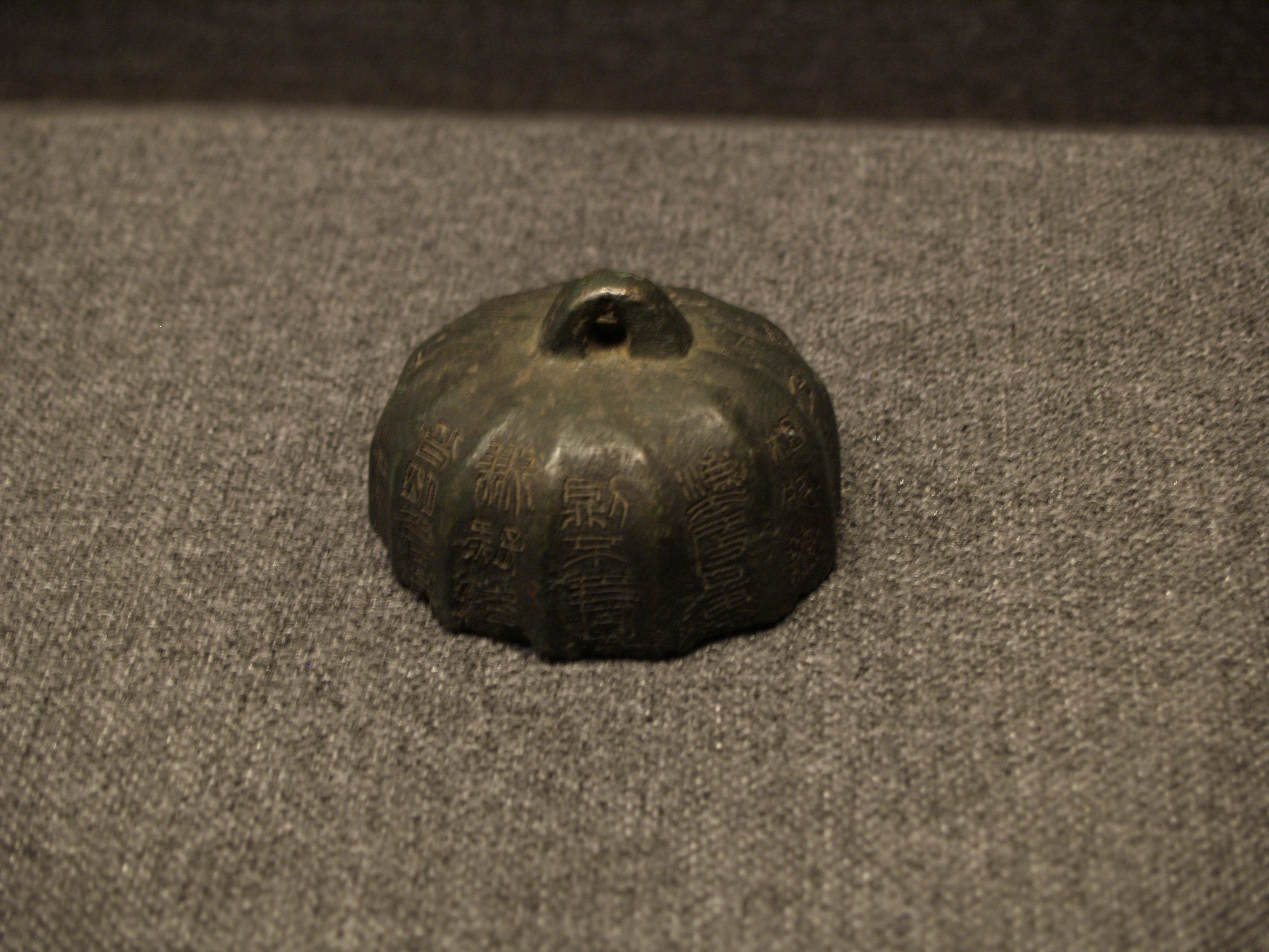 Qin dynasty weight bearing a description of Qin Shi Huang's edict of weigh measure standardization. Housed in the Museum of the Mausoleum of the Nanyue King